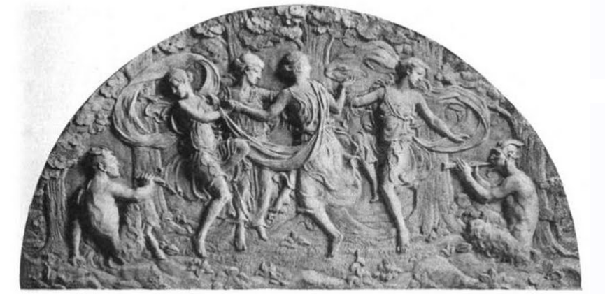 "Dance of Youth in the Spring" bas-relief sculpture by Emily Clayton Bishop. Nymphs dancing and fauns playing